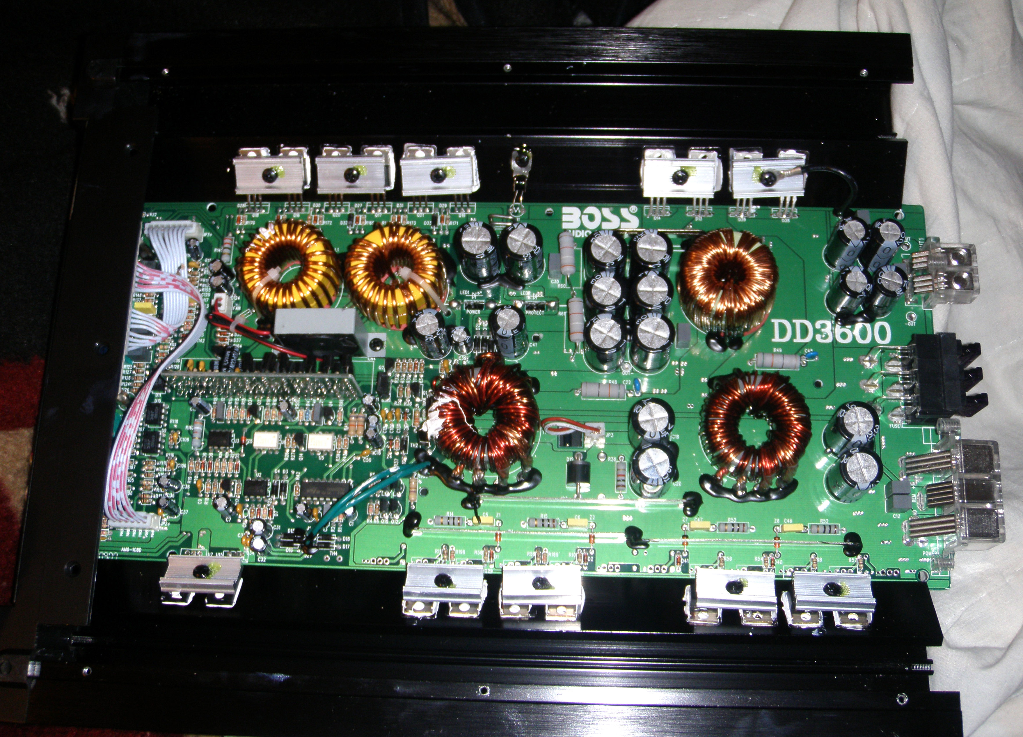 Boss Audio DD3600 Class D monoblock car audio subwoofer amplifier